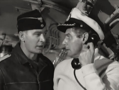 Wesley Lau (right) & Eric Feldary in the TV series One Step Beyond, episode The Haunted U-Boat (cropped screenshot)